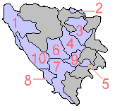 Cantons of the Federation of Bosnia and Herzegovina.